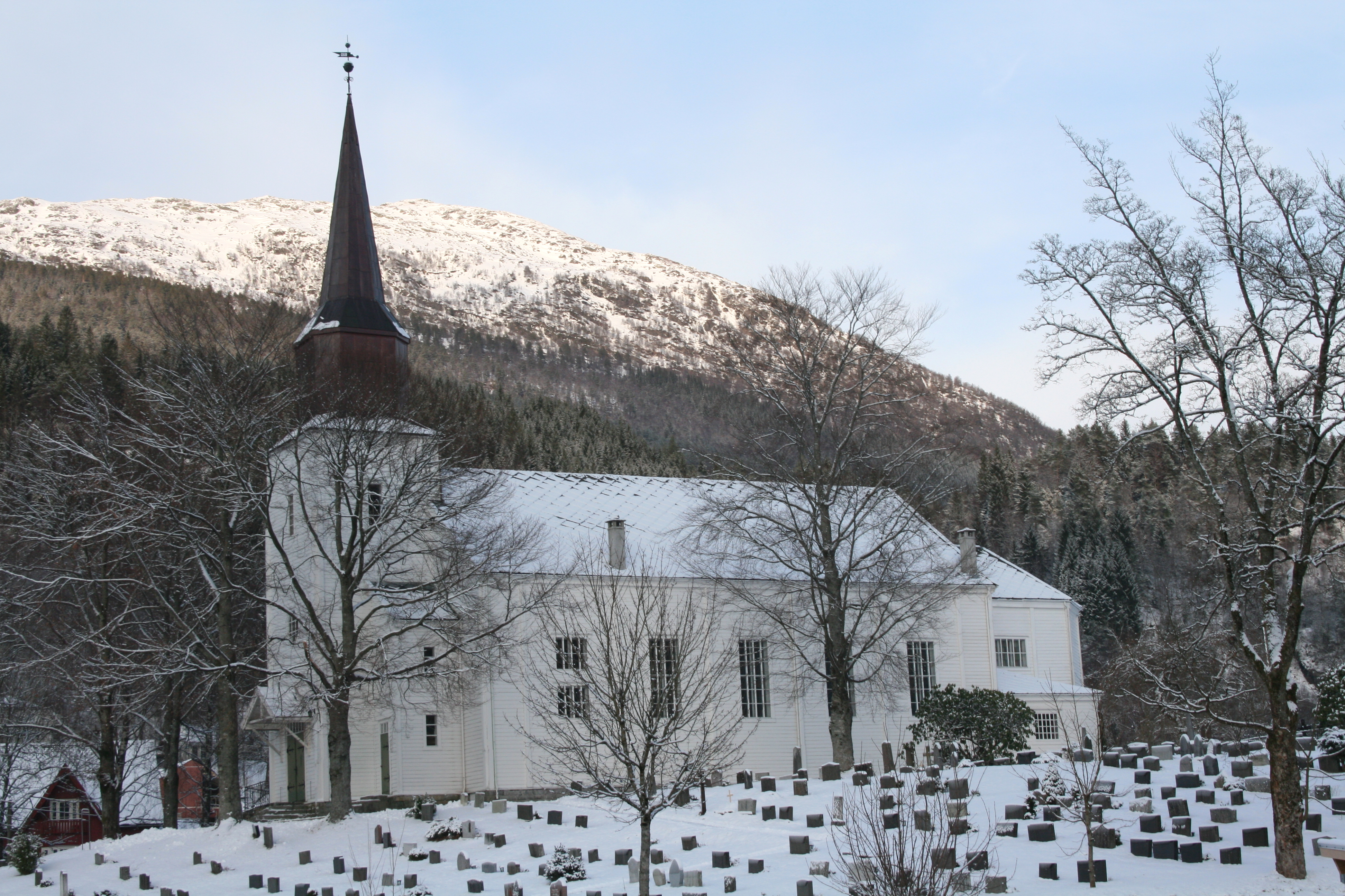 Førde church in Førde kommune, Sogn og Fjordane, Norway.